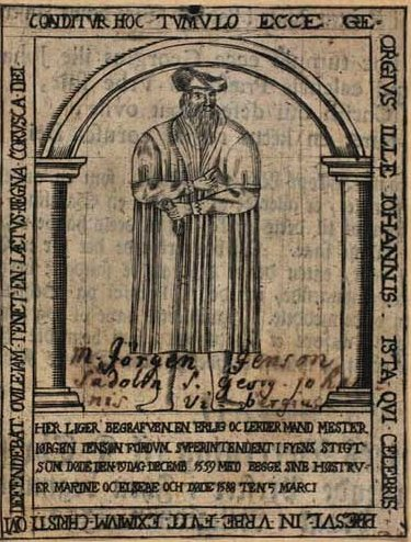 Engraving from the burial of Joergen Jensen Sadolin in 1559